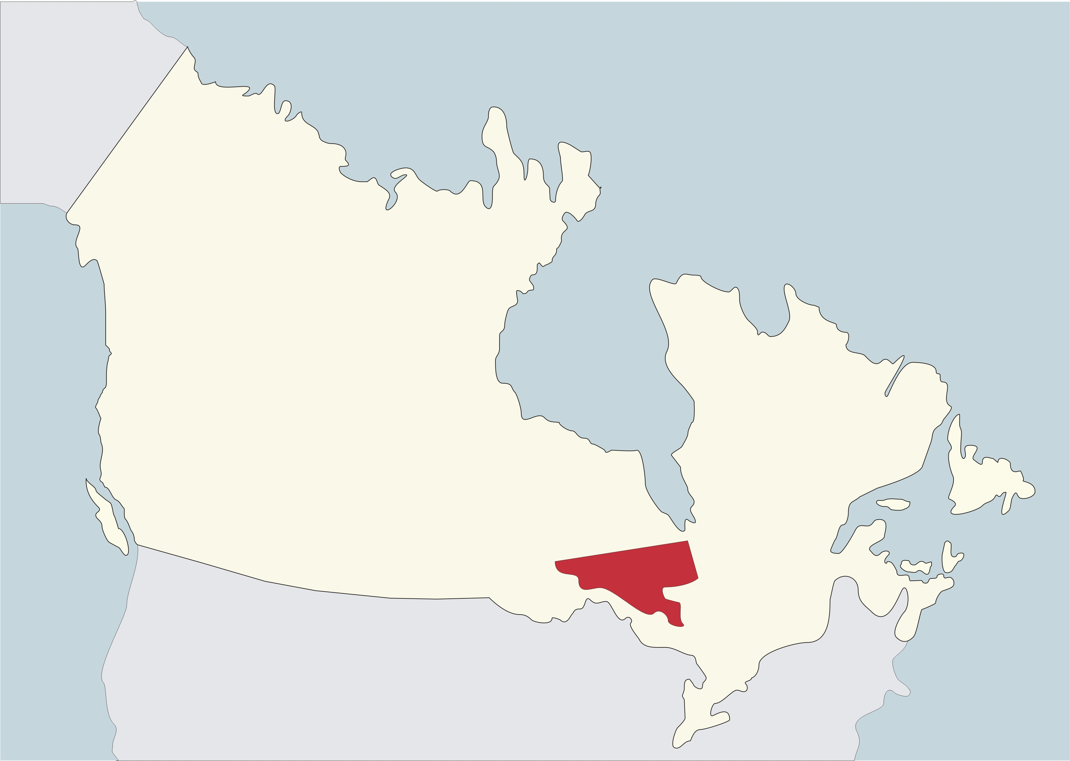 Map of the Roman Catholic Diocese of Hearat in Canada